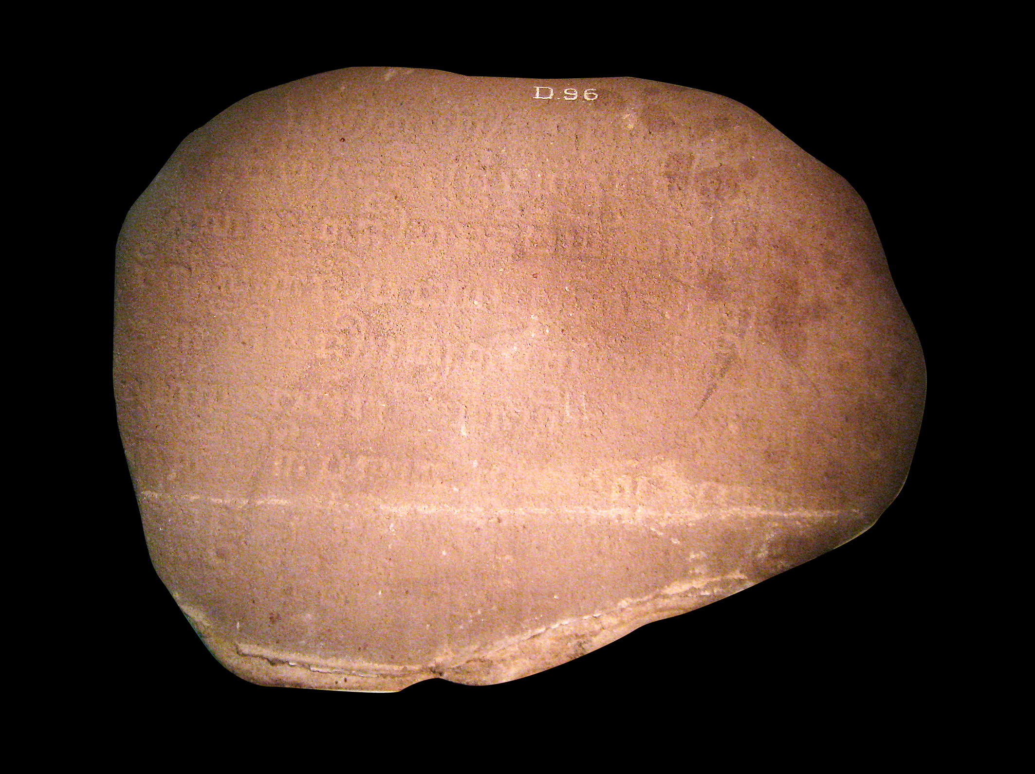 The Sanghyang Tapak or also called Jayabhupati inscription, dated 952 saka (1030 CE). Displayed at National Museum of Indonesia, Jakarta. Discovered in Pancalikan, Bantar Muncang, Cibadak, Sukabumi, West Java, this inscription was edicted by Jayabhupati, king of Sunda kingdom who declared the lands east of Sanghyang Tapak forbidden and forbade people from catching fish in the river and wetlands in this area. The inscription is written in Sanskrit.